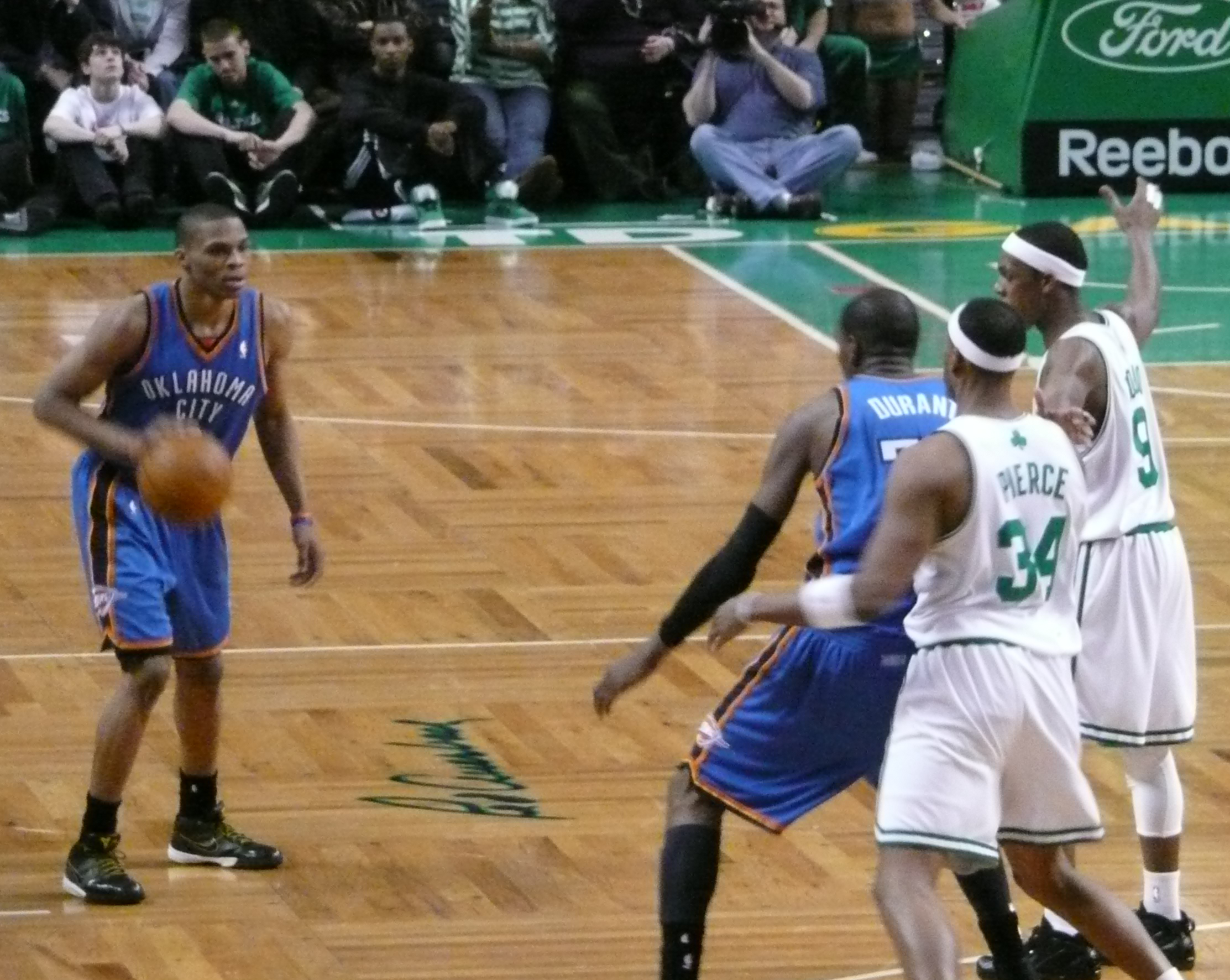 Russell Westbrook dribbling the ball during Oklahoma City Thunder vs Boston Celtics at TD BankNorth Garden.